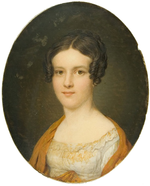 Emilie Gossler, married Amsinck (26.03.1799–24.03.1875). Daughter of Senator Johann Heinrich Gossler and a member of the Berenberg/Gossler banking dynasty. Wife of business magnate and Hamburg patrician Johannes Amsinck, who earned a fortune trading with South American countries.